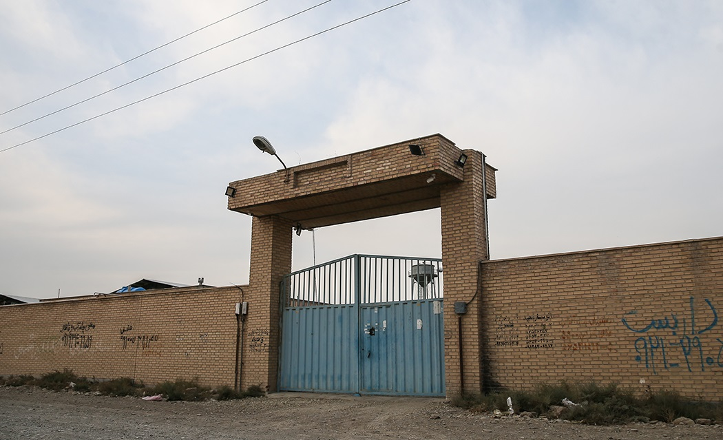 Nader Talebzade and Vahid Jalili at the Press conference Ammar International Popular Film Festival in Toroghuzabad 14 october 2018.